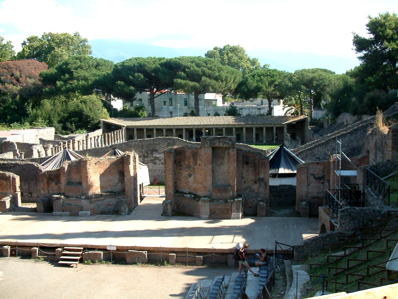 Pompeii: Scena of the Great Theatre